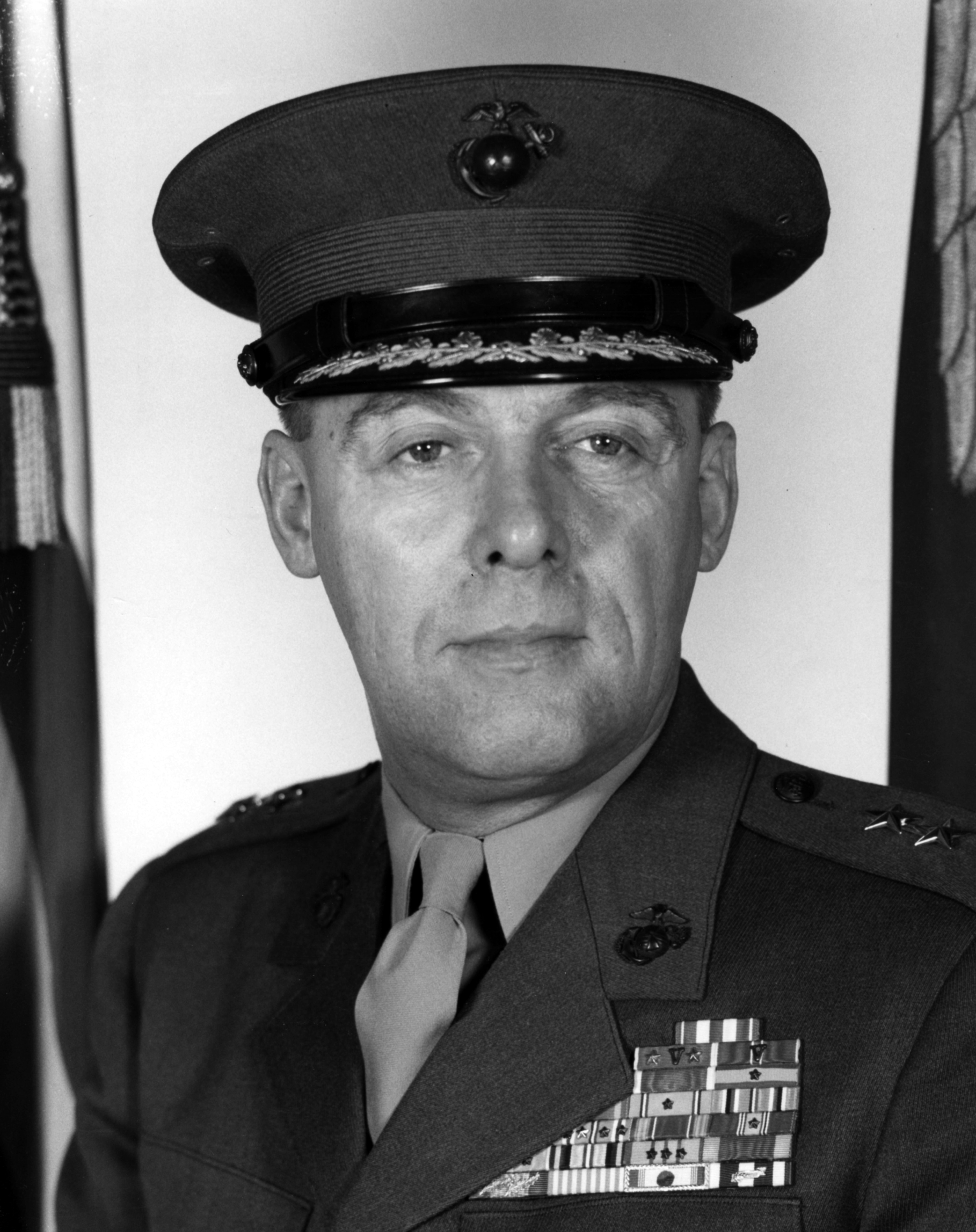 Jonas Mansfield Platt (September 21, 1919 - July 28, 2000) was highly decorated officer in the United States Marine Corps with the rank of Major General. A veteran of three wars, Platt is most noted for his service during Vietnam War as Assistant Division Commander, 3rd Marine Division and Commander of Task Force Delta. He was also a member of so-called "Chowder Society", special Marine Corps Board, which was tasked to conduct research and prepare material relative to postwar legislation concerning the role of the Marine Corps in national defense.